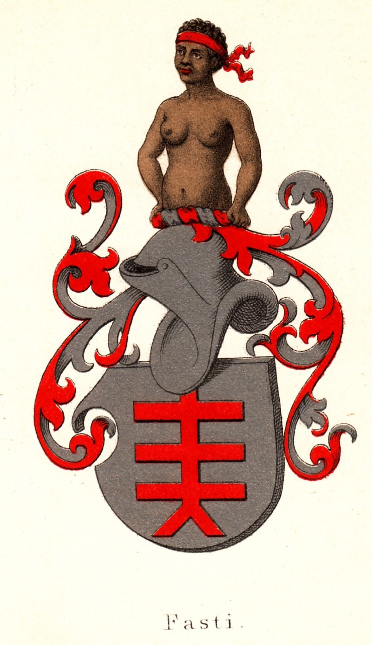 Coat of arms of the Fasti family